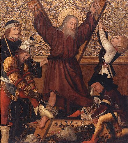 The Martydorm of Saint Andrew, Styrian painter. Late gothic period. Paint on fir wood panel. 81,5 x 71,5 cm. Inv. Nr.4974. Museum Belvedere, Vienna, Austria. Vlad the Impaler depicted as Aegeas, the Roman proconsul in Patras, crucifying Saint Andrew.